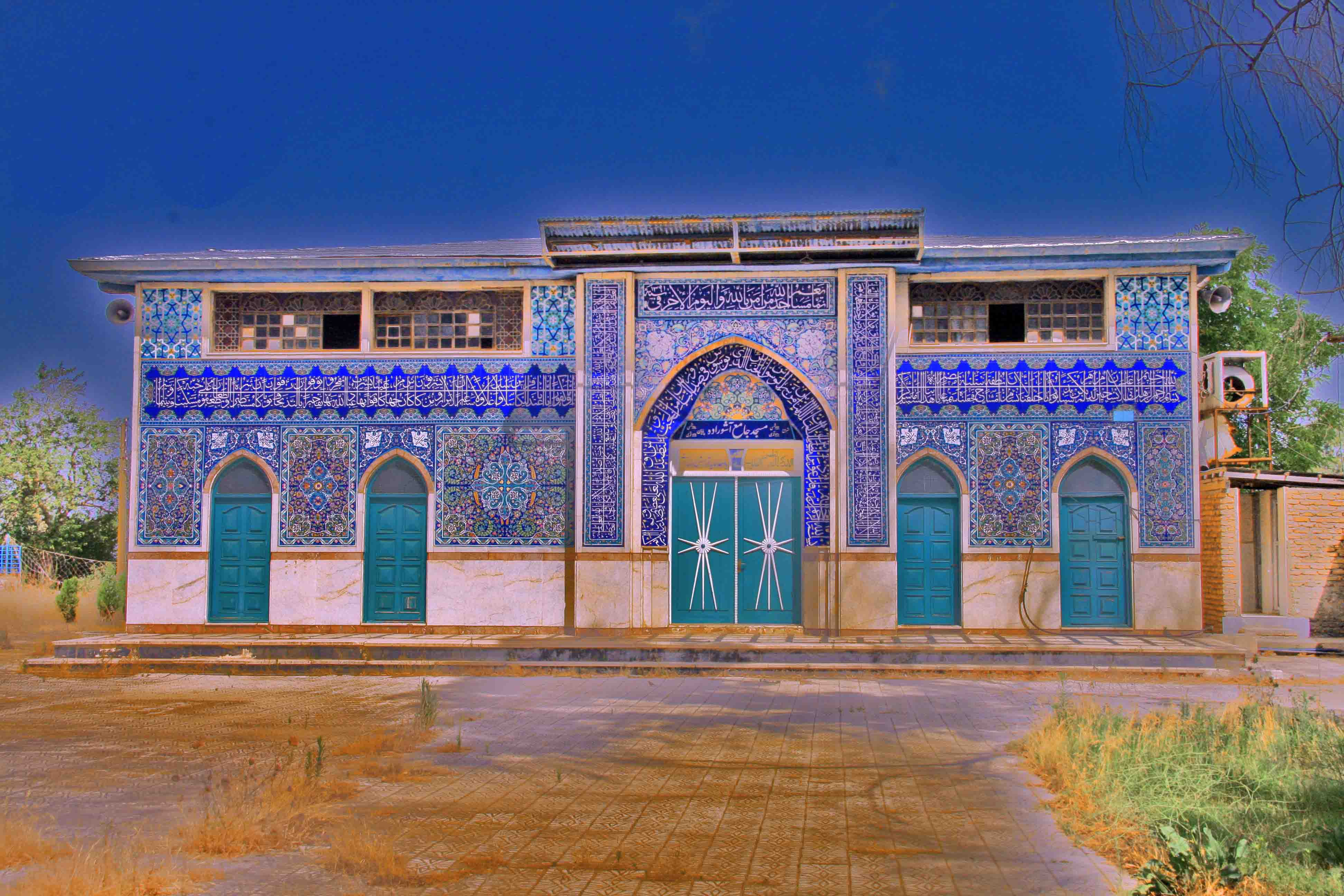 Mazandaran, Unnamed Road, Iran